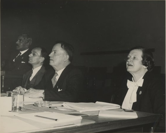 Mrs Jessie Street at the United Women's Conference in San Francisco, 19 May 1945. Photo by Sam Rosenberg